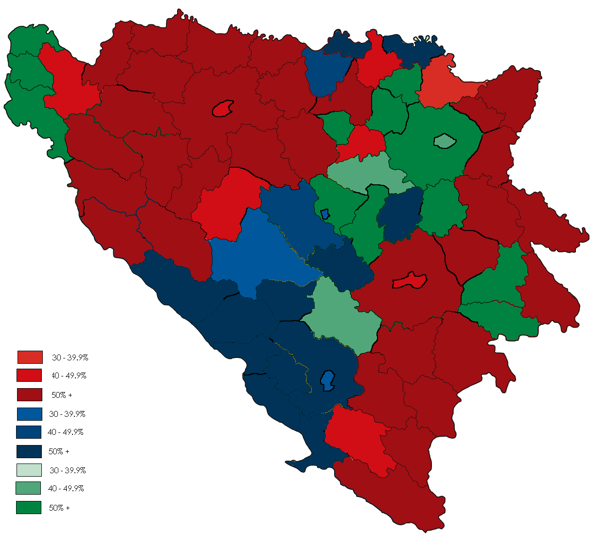 Religious majority in Bosnian kotars in 1953 This is religious map, blue are catholics (mostly Croats), red are orthodox (mostly Serbs), and green are Muslims (which counted as Croats, Serbs, or unknown ethnicity on that census)